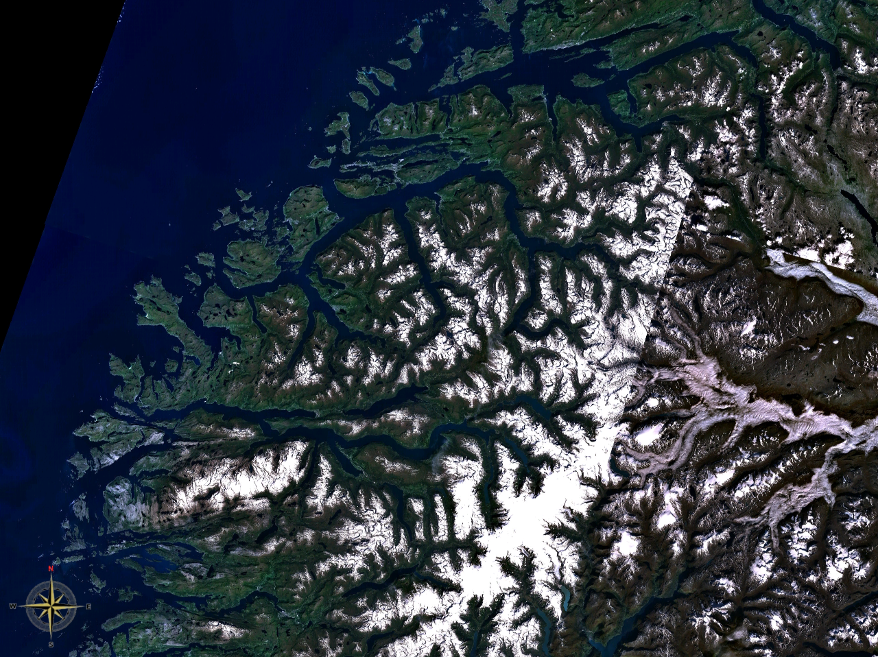 Satellite imagery of three large fjords: From top to bottom Romsdalsfjorden, the fjord system of Sunnmøre, and Nordfjord.